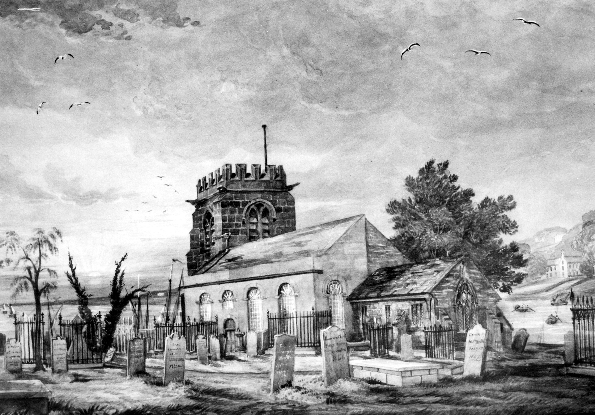 Painting of the old church